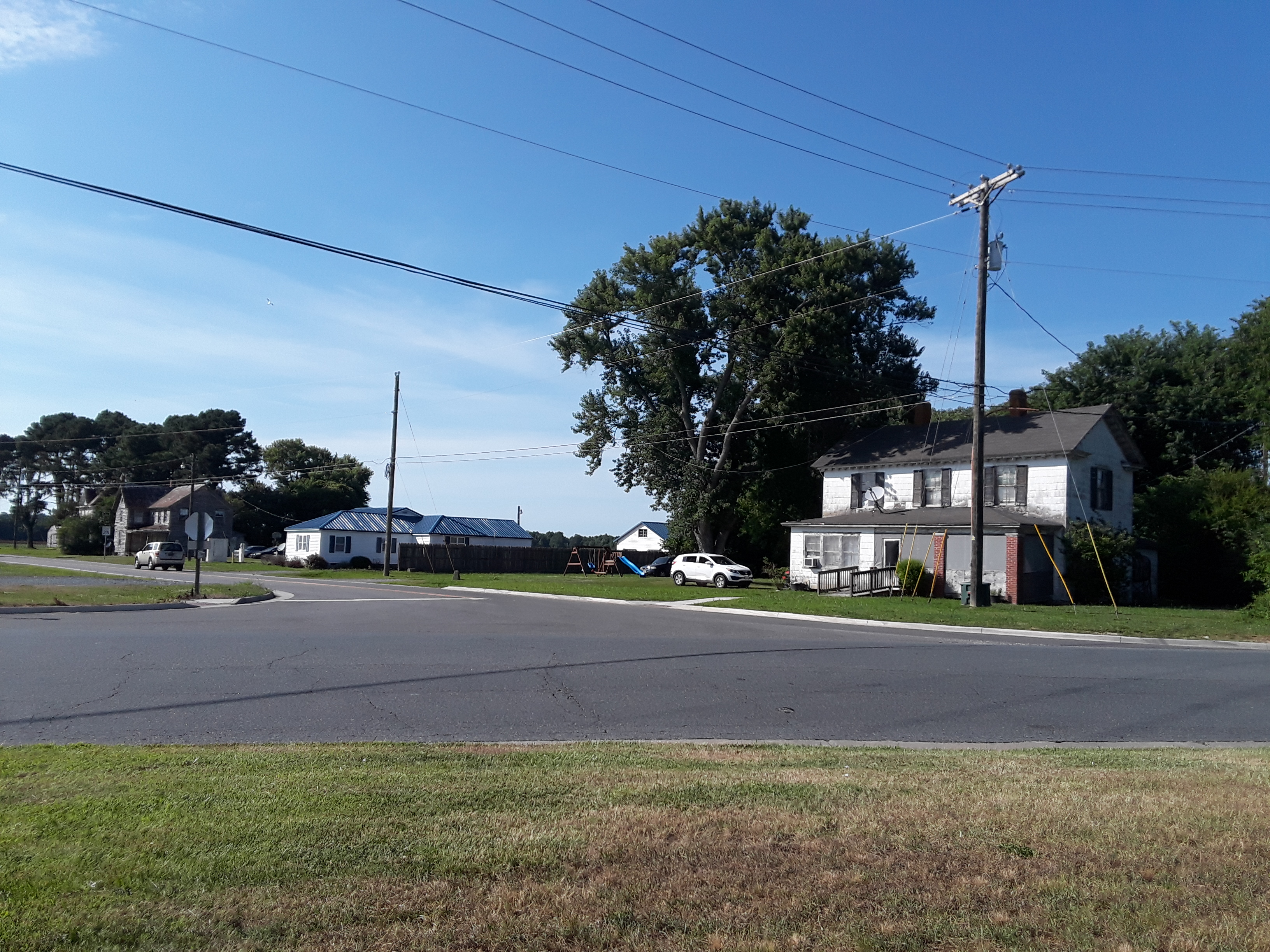 Taken on a visit to the Eastern Shore of Virginia, July 2018